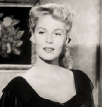 Janis Carter in My Forbidden Past - trailer (cropped screenshot)